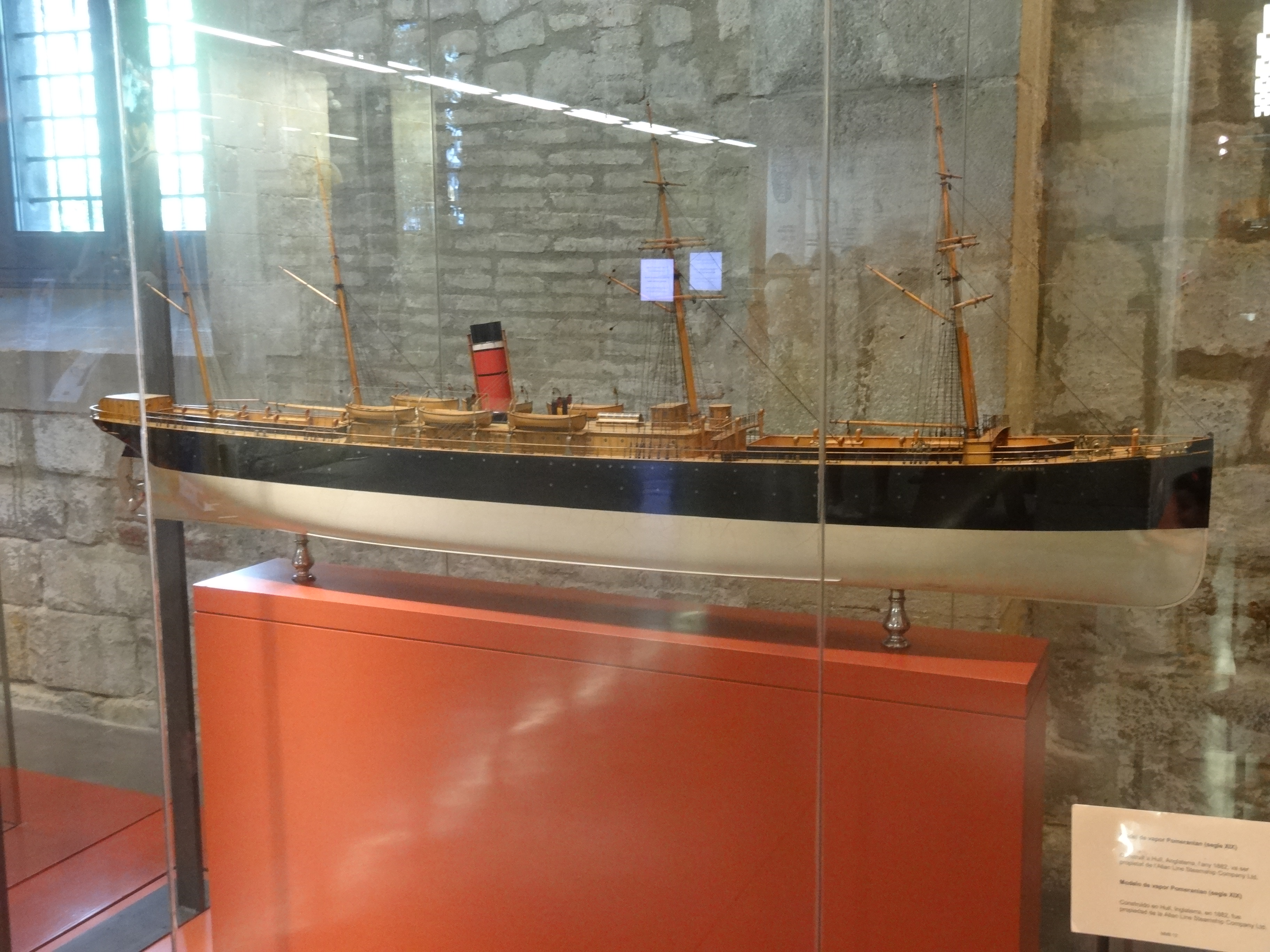 Model of steamship Pomeranian, at the Museu Maritim, Barcelona. Ship built in Hull, England, in 1882, owned by Allan Line Steamship Company Ltd